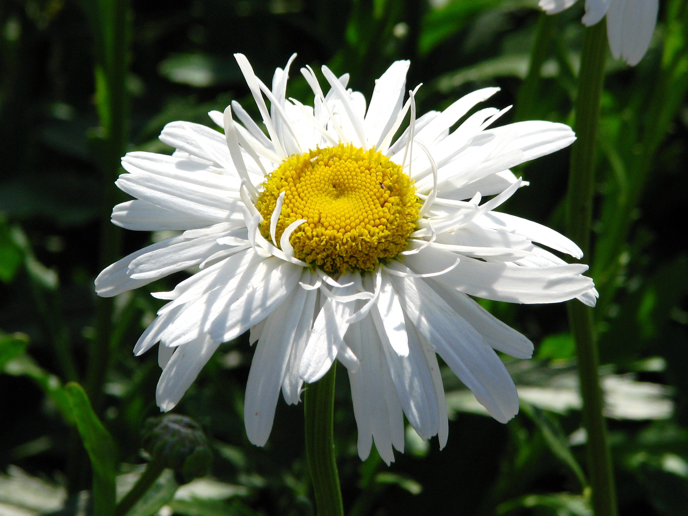 Leucanthemum maximum 'Crazy Daisy'. From the collection of the Main Botanical Garden of Academy of Sciences in Moscow (perennials plot).